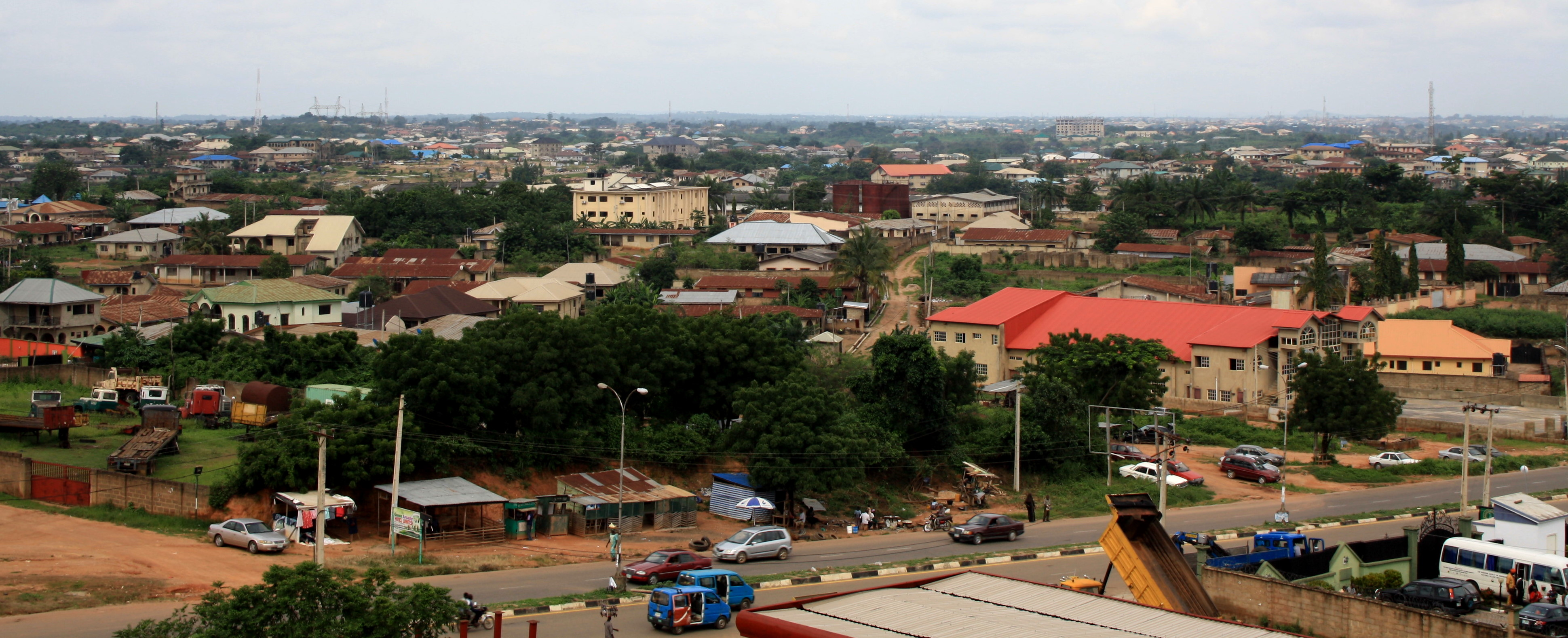 Osogbo city